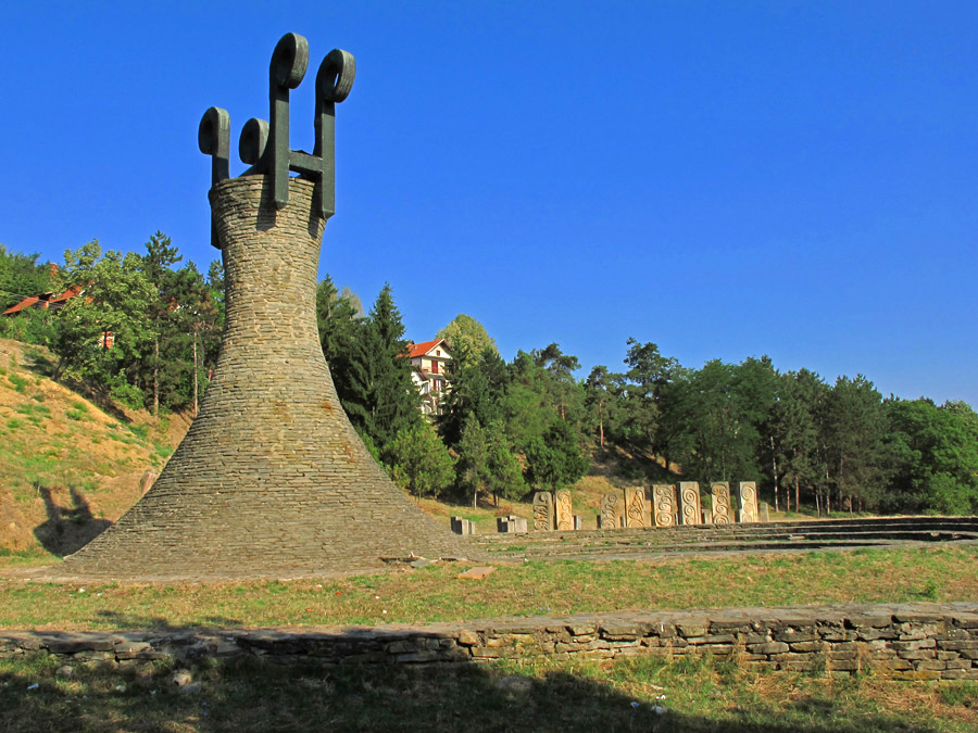 Leskovac Memorial Park.